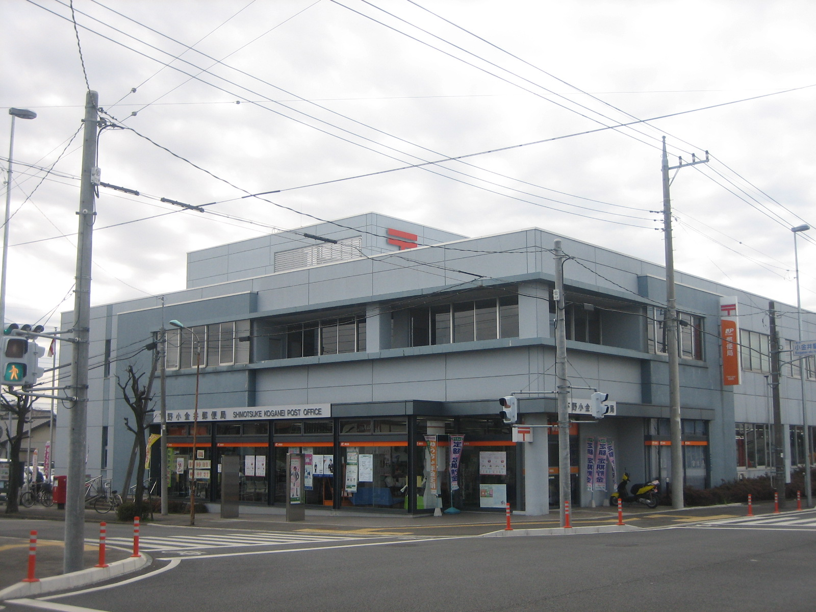 Shimotsuke-koganei post office in Tochigi, Japan